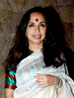 Shonali Bose at a screening of Margarita with a Straw.